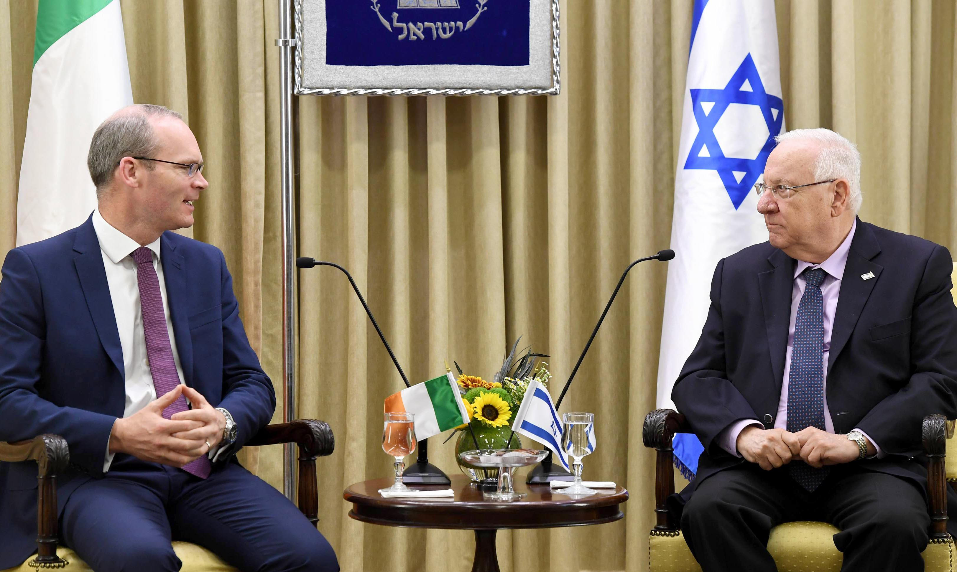 President of the State of Israel, Reuven Rivlin, at a working meeting with the Minister of Foreign Affairs of Ireland, Simon Coveney. Wednesday, July 12, 2017. Photo Credit: Mark Neyman / GPO.